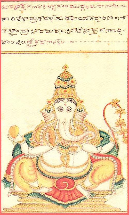 Reproduction from the Śrītattvanidhi ("The Illustrious Treasure of Realities"), an iconographic treatise compiled in the 19th century in Karnataka, India, by order of the then Maharaja of Mysore, Krishnaraja Wodeyar III (b. 1794 - d. 1868).